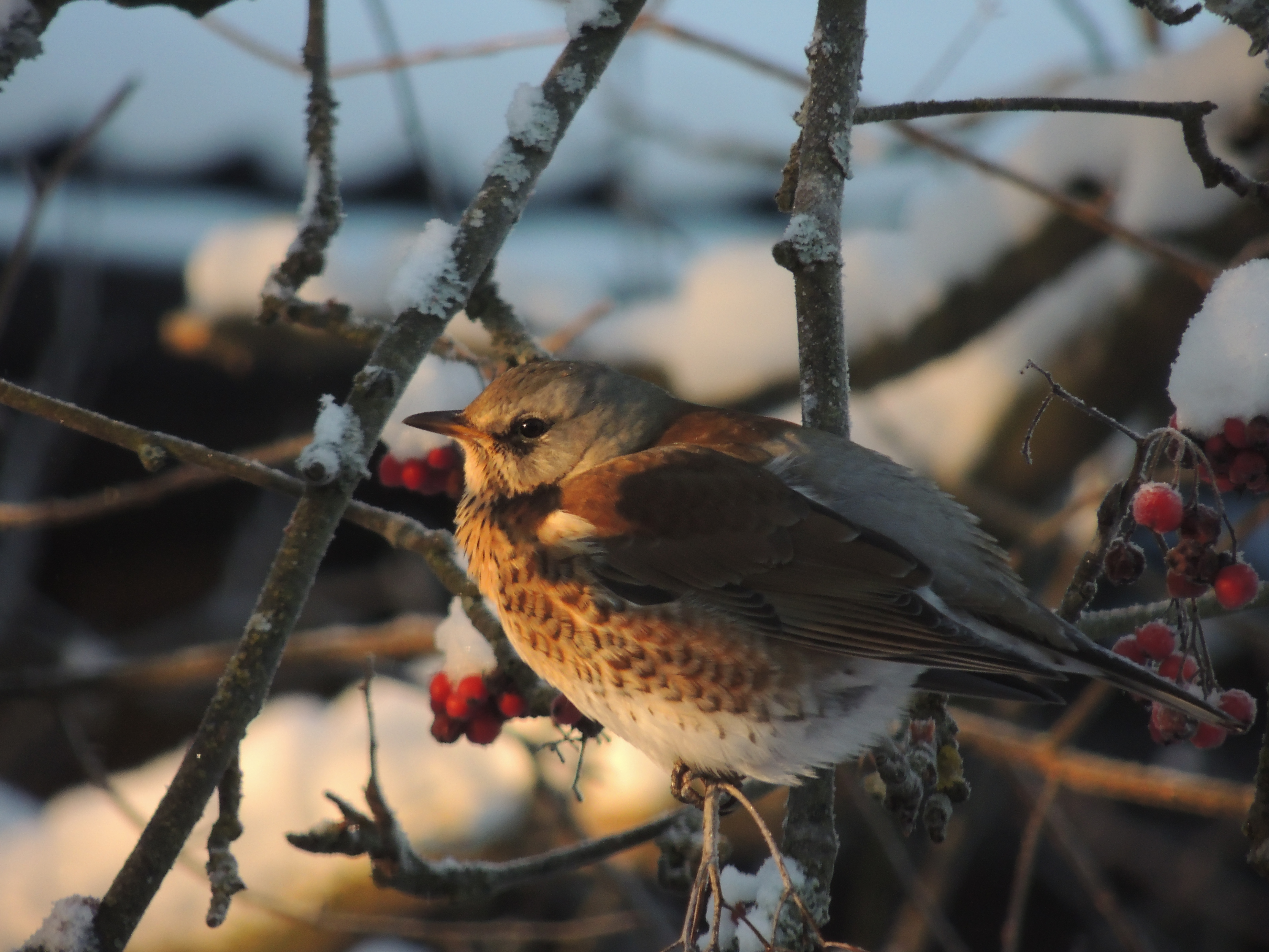 Fieldfare Vantaa, Finland